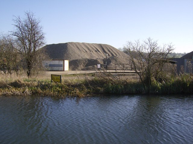 Gravel, gravel and more gravel Another gravel extraction site in the Kennet Valley - this one near Padworth Bridge, Kennet and Avon Canal in foreground.